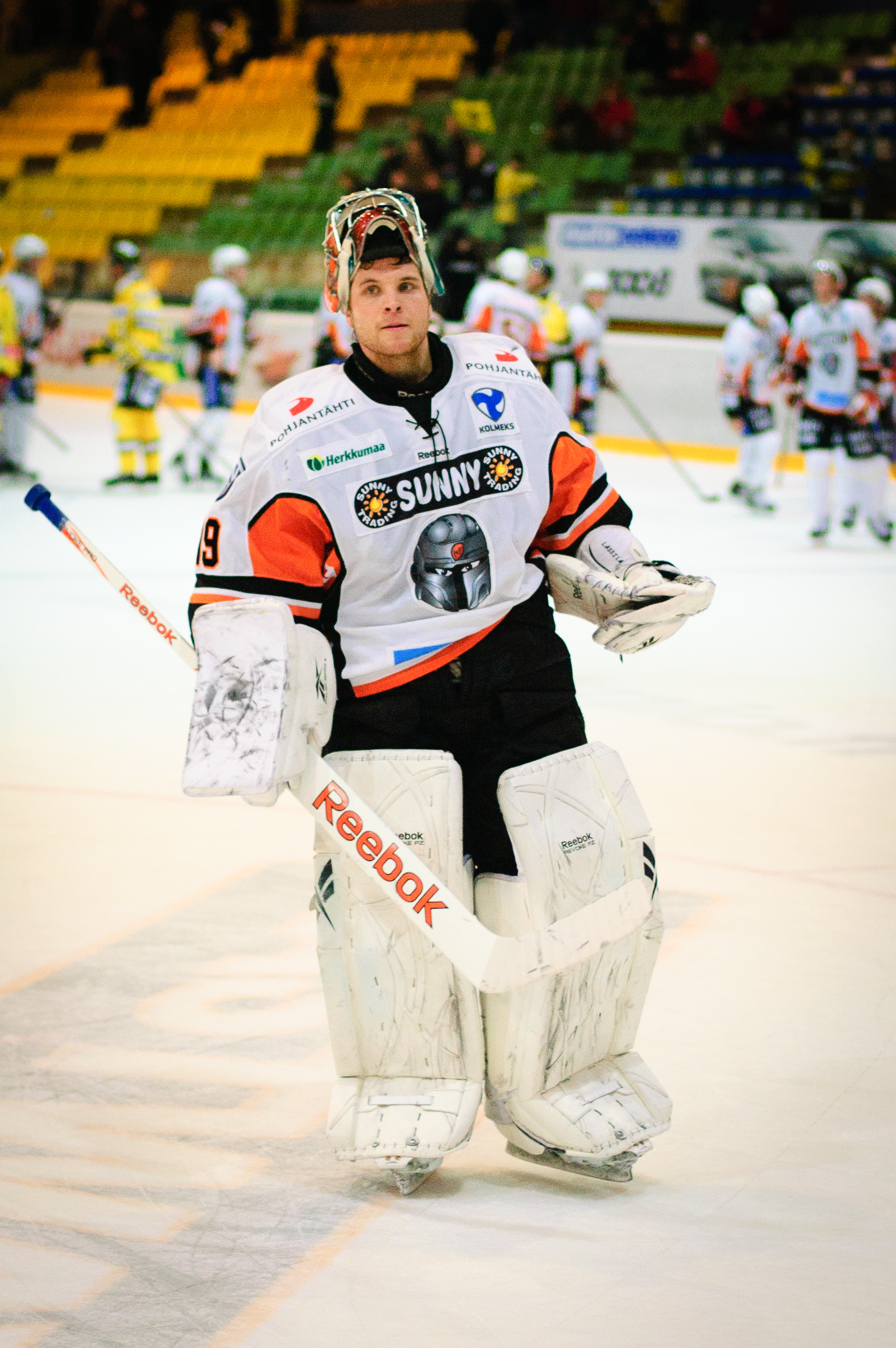 Finnish ice hockey goaltender Teemu Lassila playing for HPK Hämeenlinna against SaiPa Lappeenranta in the Finnish SM-liiga.